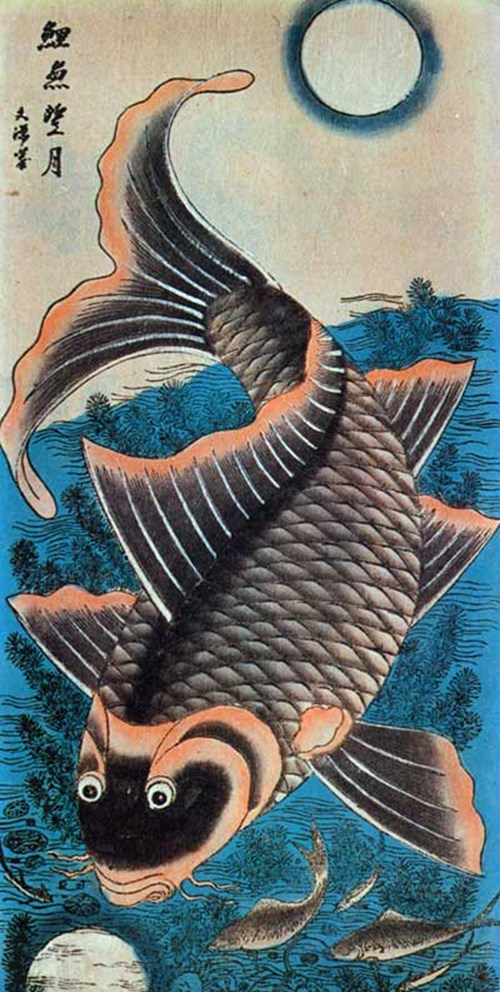 Ly Ngu vong nguyet ("Ca chep trong trang"; Carp looks the moon), a woodblock print, produced by artisans from the village of Dong Ho in North Vietnam.